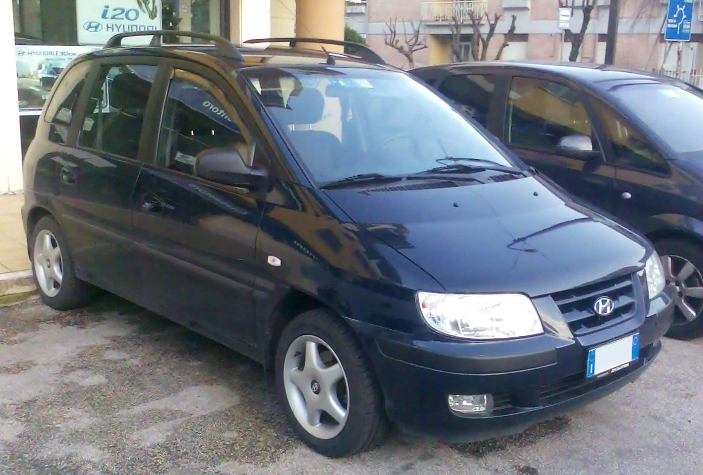 Hyundai Matrix